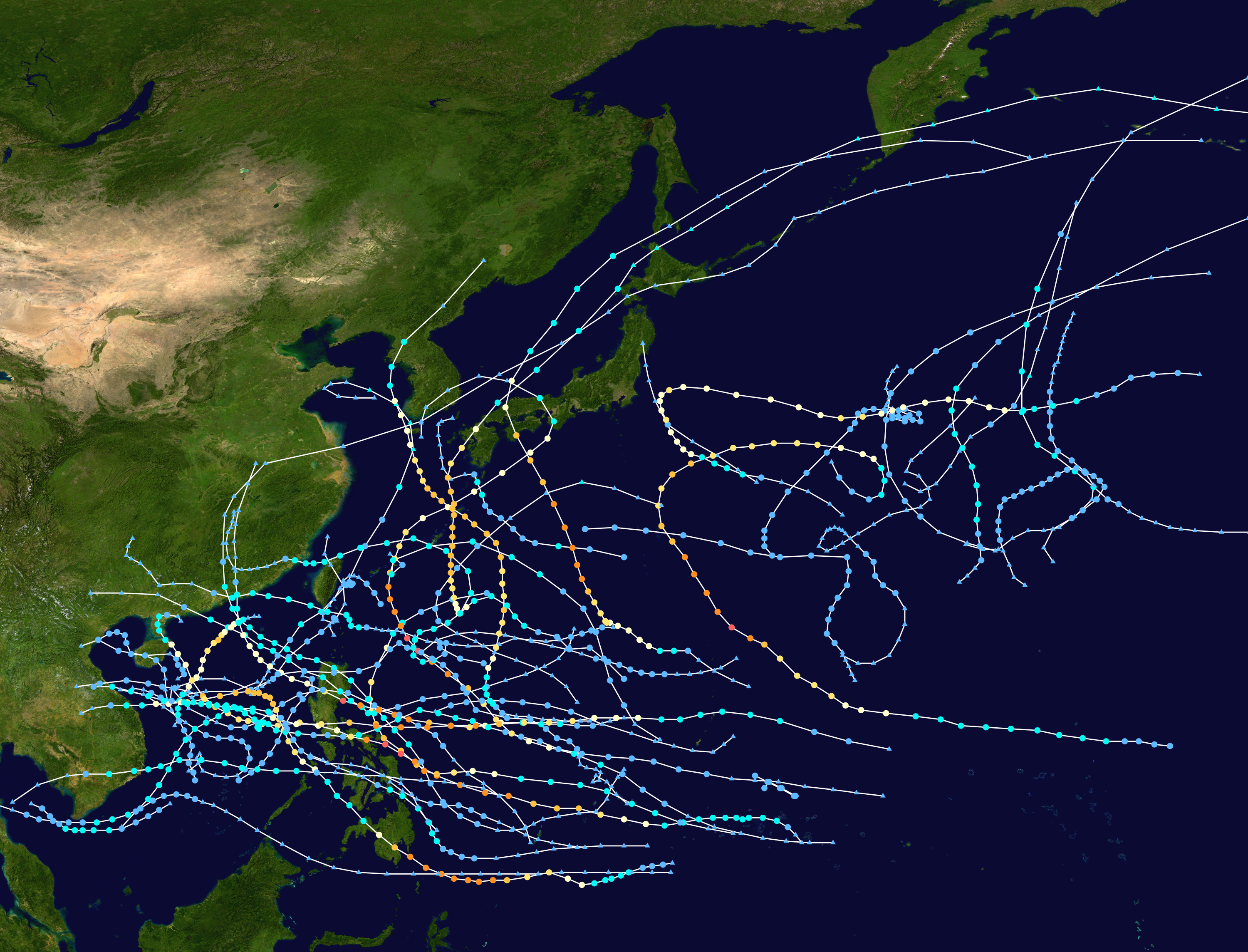 This map shows the tracks of all tropical cyclones in the 1970 Pacific typhoon season. The points show the location of each storm at 6-hour intervals. The colour represents the storm's maximum sustained wind speeds as classified in the Saffir-Simpson Hurricane Scale (see below), and the shape of the data points represent the type of the storm. Saffir–Simpson hurricane wind scale Tropical depression≤38 mph≤62 km/h Category 3111–129 mph178–208 km/h Tropical storm39–73 mph63–118 km/h Category 4130–156 mph209–251 km/h Category 174–95 mph119–153 km/h Category 5≥157 mph≥252 km/h Category 296–110 mph154–177 km/h Unknown Storm typeTropical cycloneSubtropical cycloneExtratropical cyclone / Remnant low / Tropical disturbance